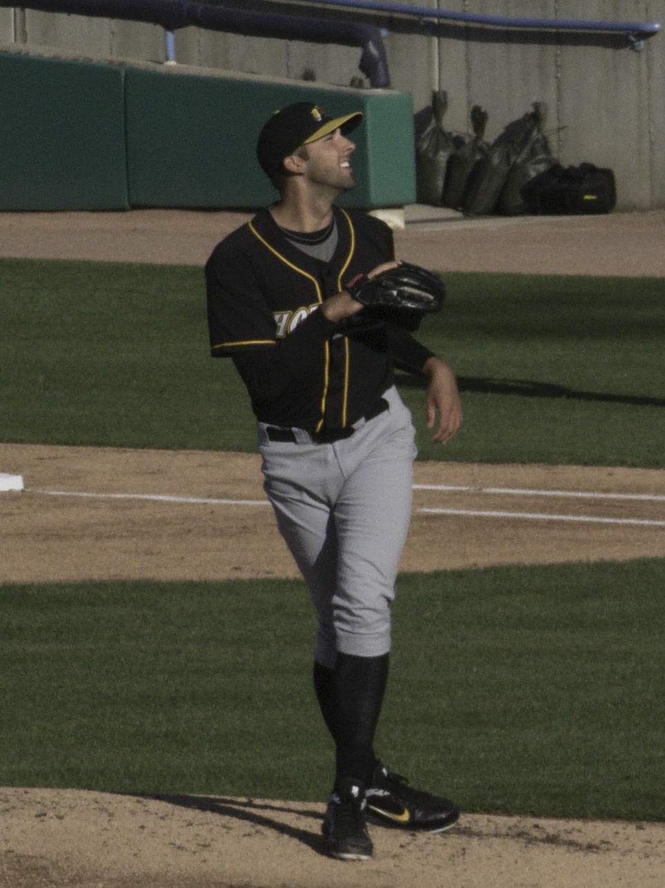 Ryan Carpenter on the mound for the Bowling Green Hot Rods during a game against the West Michigan Whitecaps in 2012